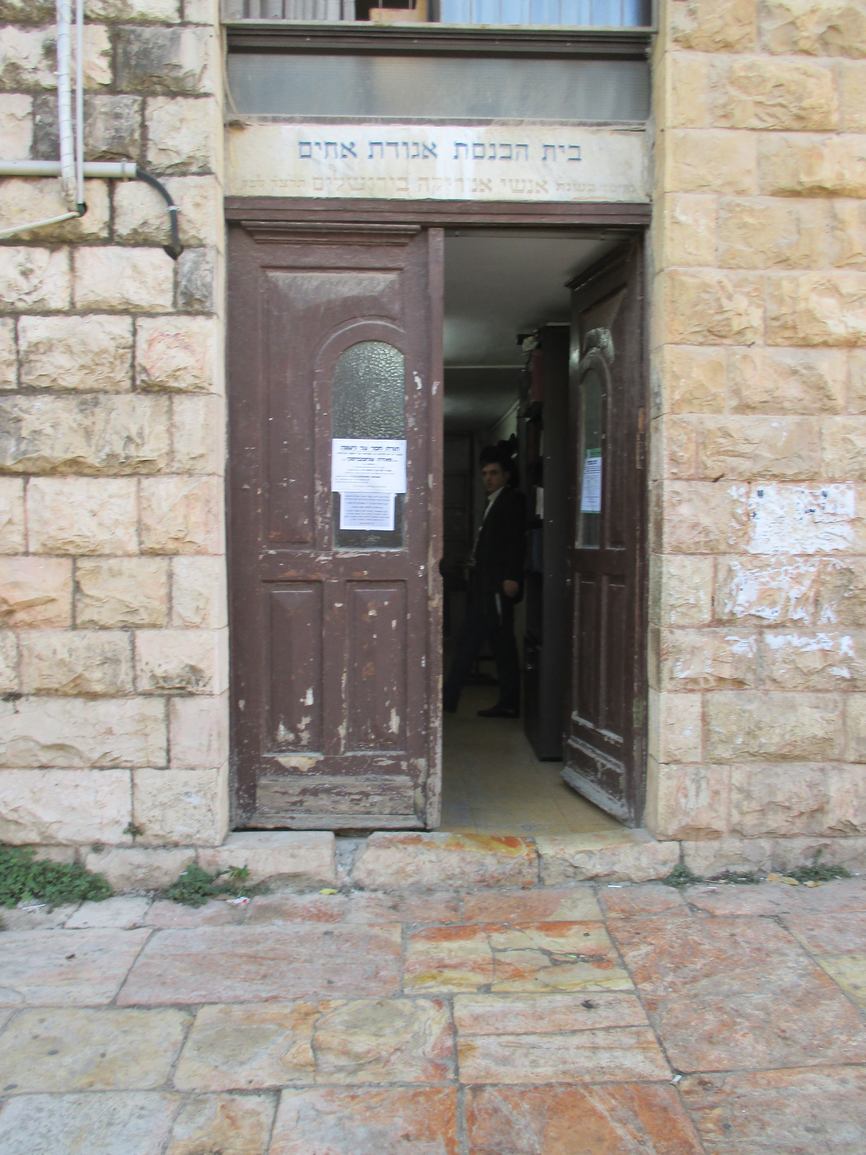 Jerusalem, Reshit Khokhma st